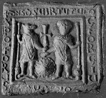 Early ceramic icon of Saint Christopher and Saint George. One of the Vinica icons, an exceptional discovery of terra-cotta icons (26 whole, 20 fragmentary and more than 100 smaller and larger fragments combined into an additional 14 icons), excavated in 1985/6 near Vinica, Macedonia. The icons are rectangular (c. 32 x 20 x 4.5 cm) or nearly square (31 x 29 x 4.5 cm). As they combine Greek and Roman inscriptions, they are dated to before 733, when Macedonia was still under Roman rule. St Christopher is cynocephalous, the icon was made at a time when this saint was believed to belong to the exotic people with this feature. Both saints are standing on serpents with human heads, and are aiming at the heads of the serpents with lances. Christopher is holding a cross in his left hand, George is holding a round shield in his right. The horizontal inscription reads D(EU)S D(OMI)N(U)S VIRTUTUM / [E]X[AUDI ]NO[S] (Psalm 84:9), the vertical inscriptions label the saints as XPOFERUS and GEORGIUS. Literature: Elizabeta Dimitrova, The Ceramic Relief Plaques from Vincia (2016), 12f.[1] Jan Bazant, "St. George at Prague Castle and Perseus: an Impossible Encounter?", Studia Hercynia 19.1-2 (2015), 189-201 (fig. 4).